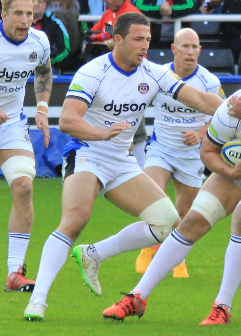 English rugby (both league and union) footballer Sam Burgess playing for Bath Rugby in English Premiership.